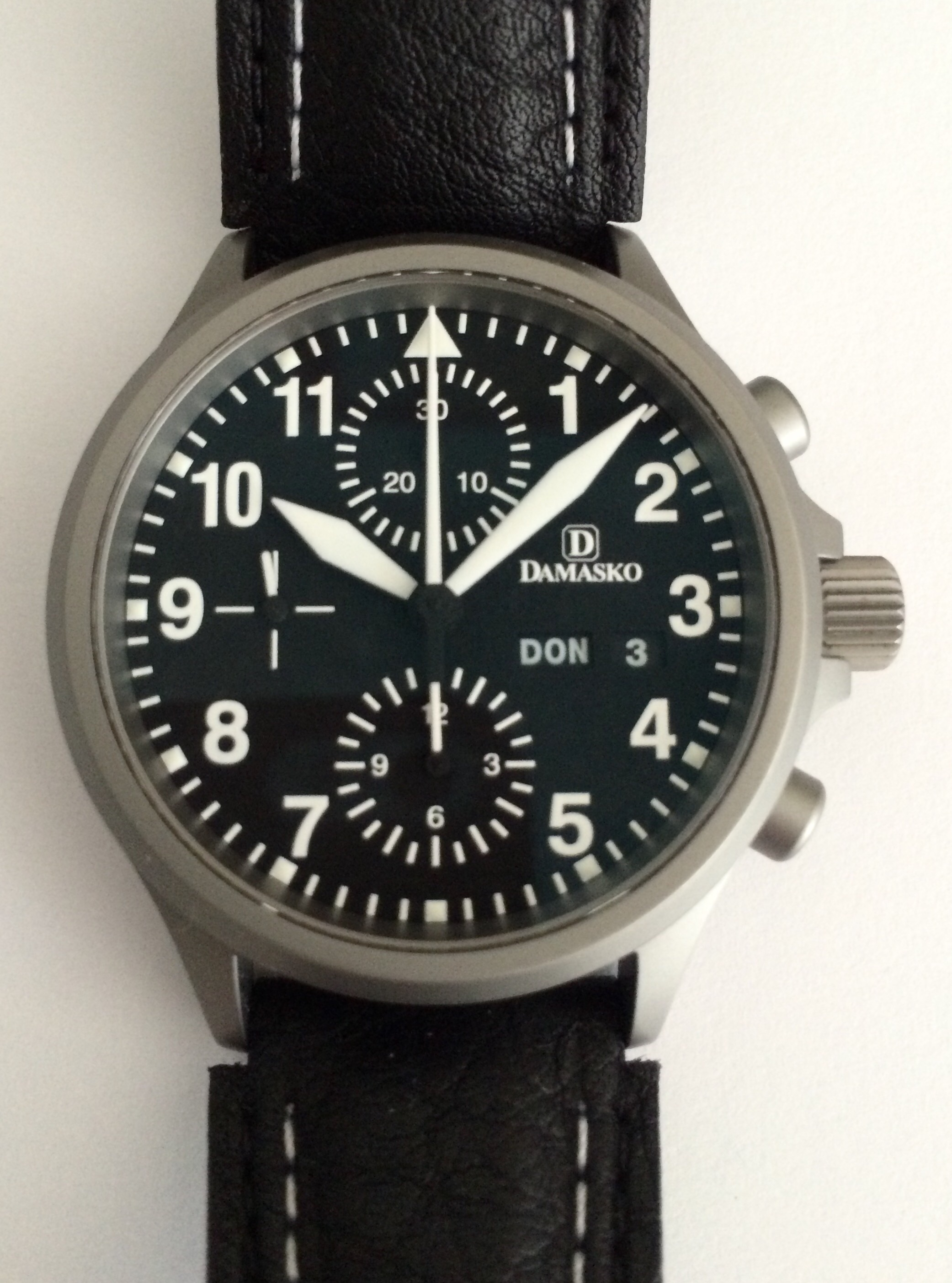 Damasko DC56 Chronograph